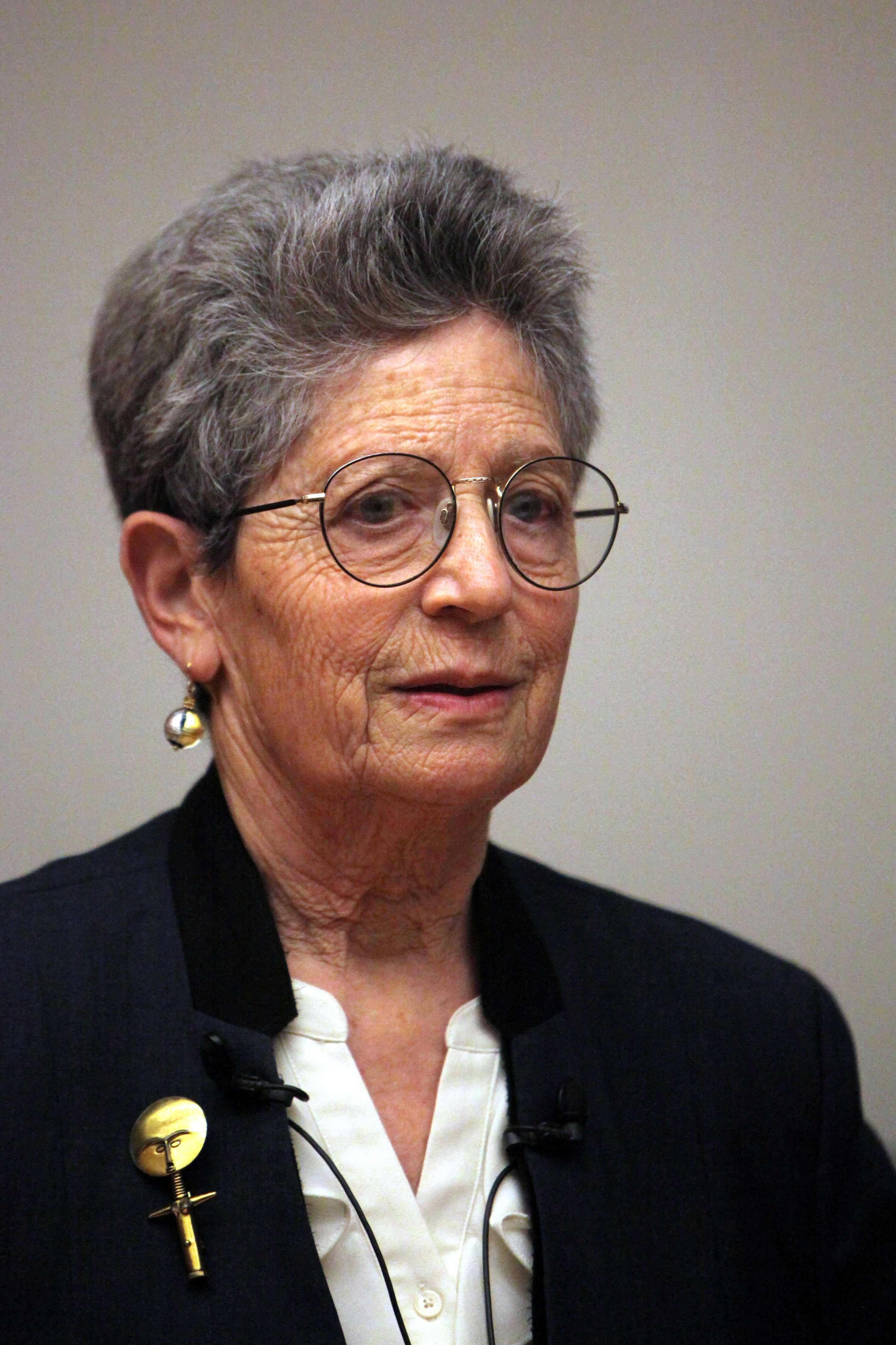 Anne Fausto-Sterling giving a talk at the University of Geneva on 6 March 2019.